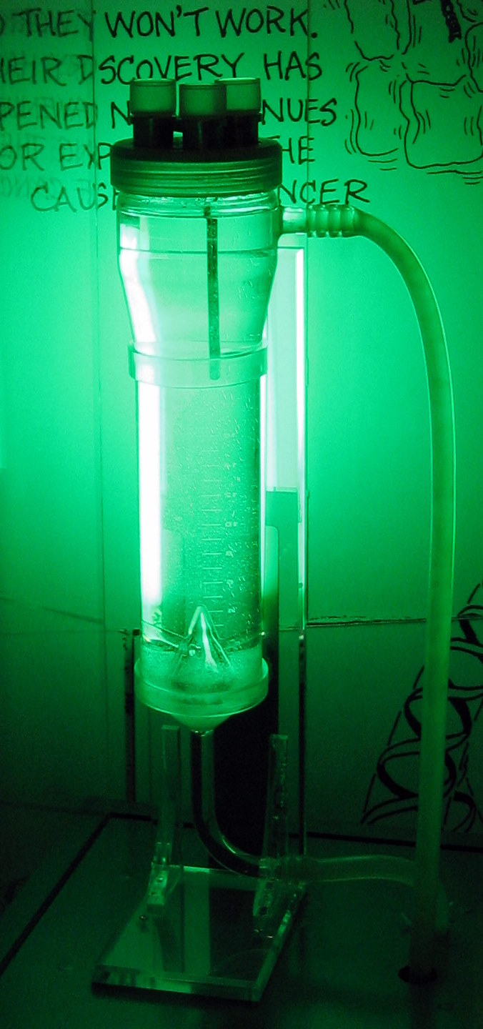 A Cellex bioreactor used (1993) to produce monoclonal antibodies. Now exposed at the Science Museum, London.